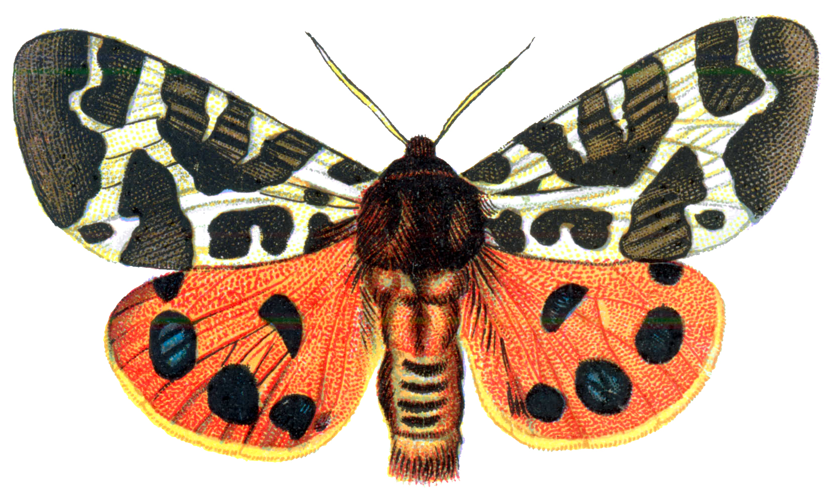 Garden Tiger